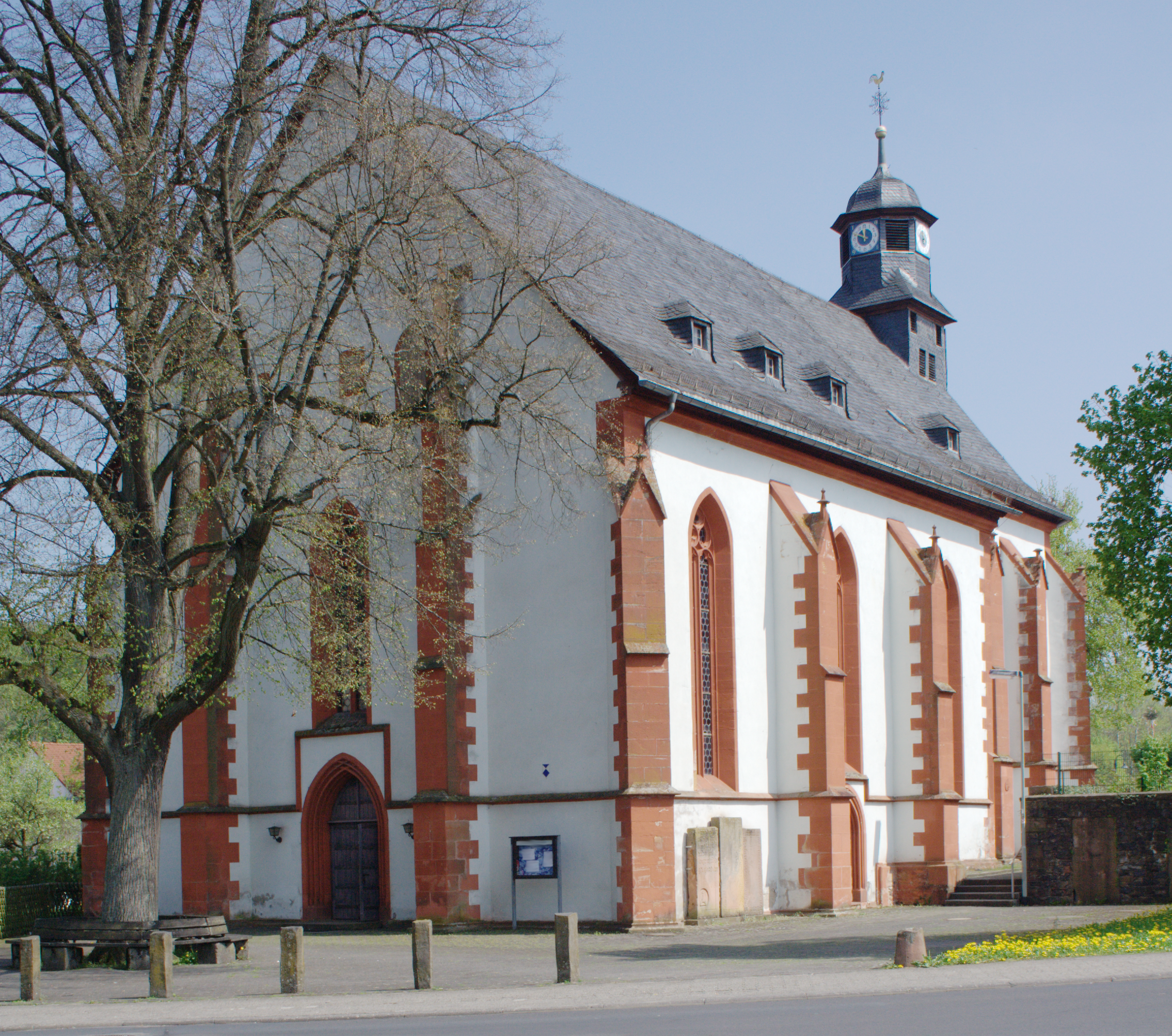 Church in Hirzenhain, Hesse, Germany